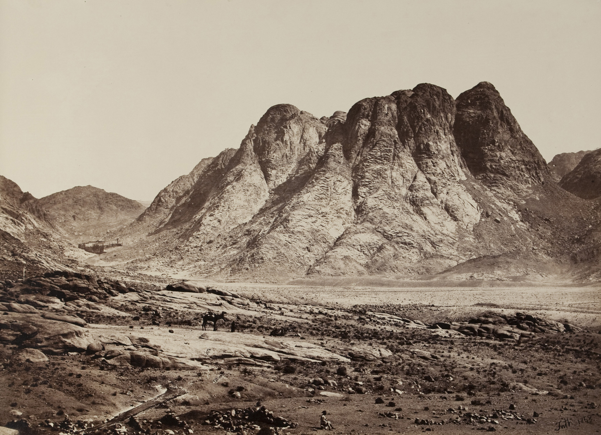 Artist: Francis F. Frith Artist Bio: British, 1822 - 1898 Creation Date: 1858 Process: albumen print Credit Line: Gift of Joseph and Elaine Monsen Accession Number: 2009.002.001